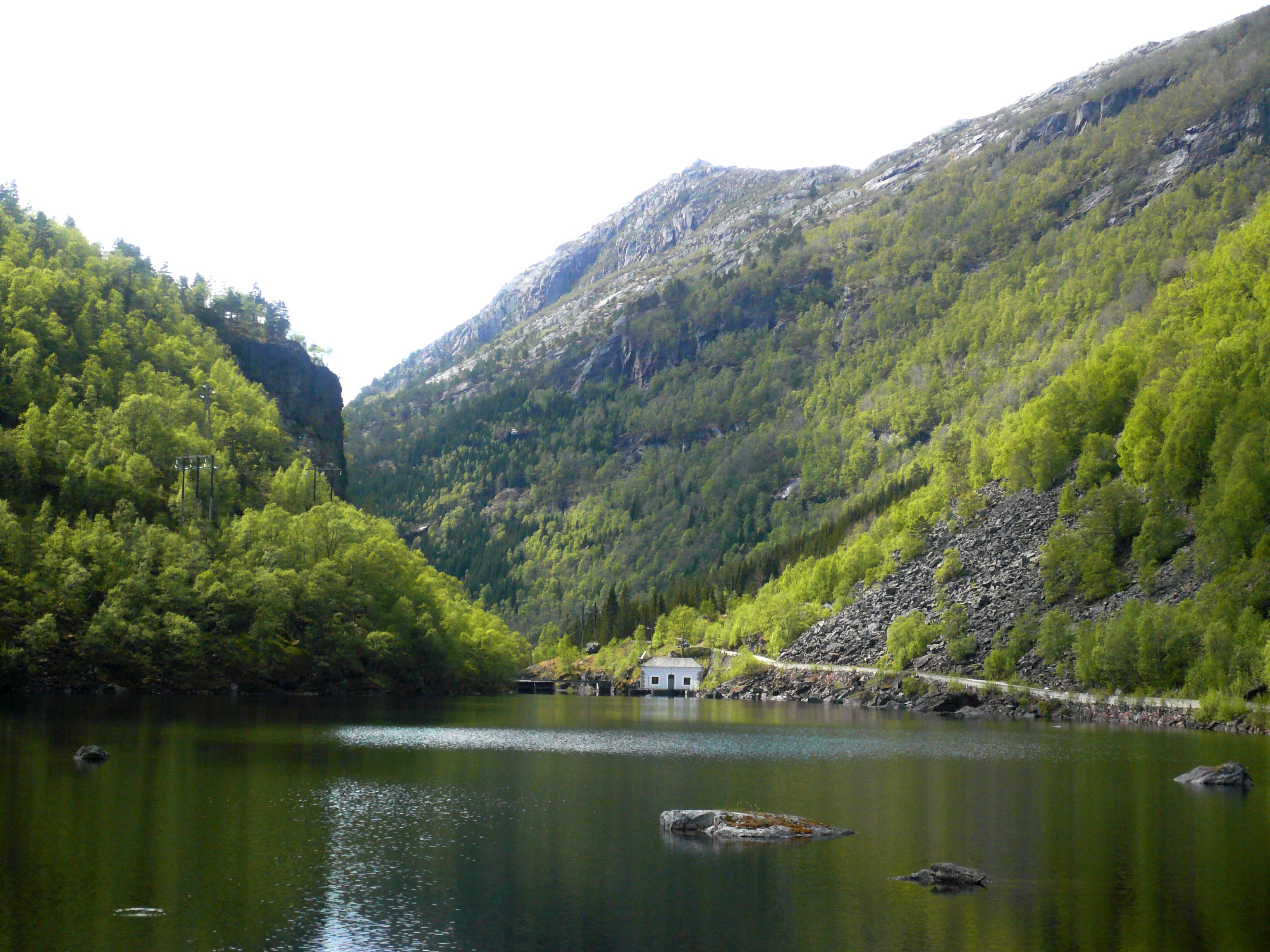 Vetlevann, Skjeggedal, Hordaland, Norway